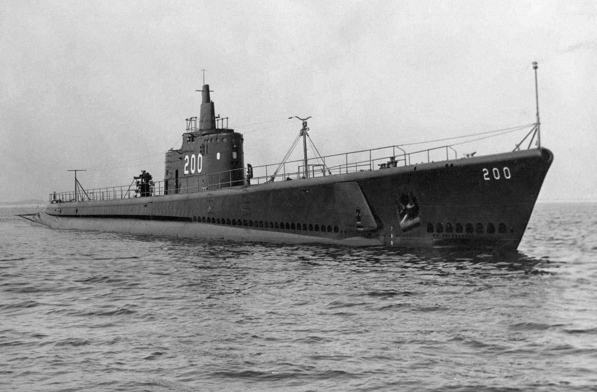 Thresher (SS-200) after launch. Navy photo per navsource.